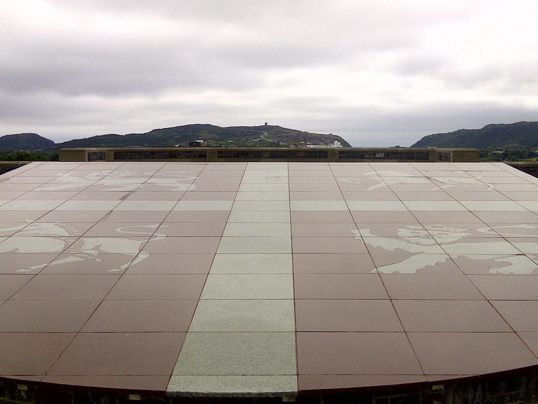 The provincial shield of Newfoundland and Labrador in front of the Confederation Building. Cabot Tower and Signal Hill visible in the distance. St. John's, Newfoundland and Labrador, Canada.